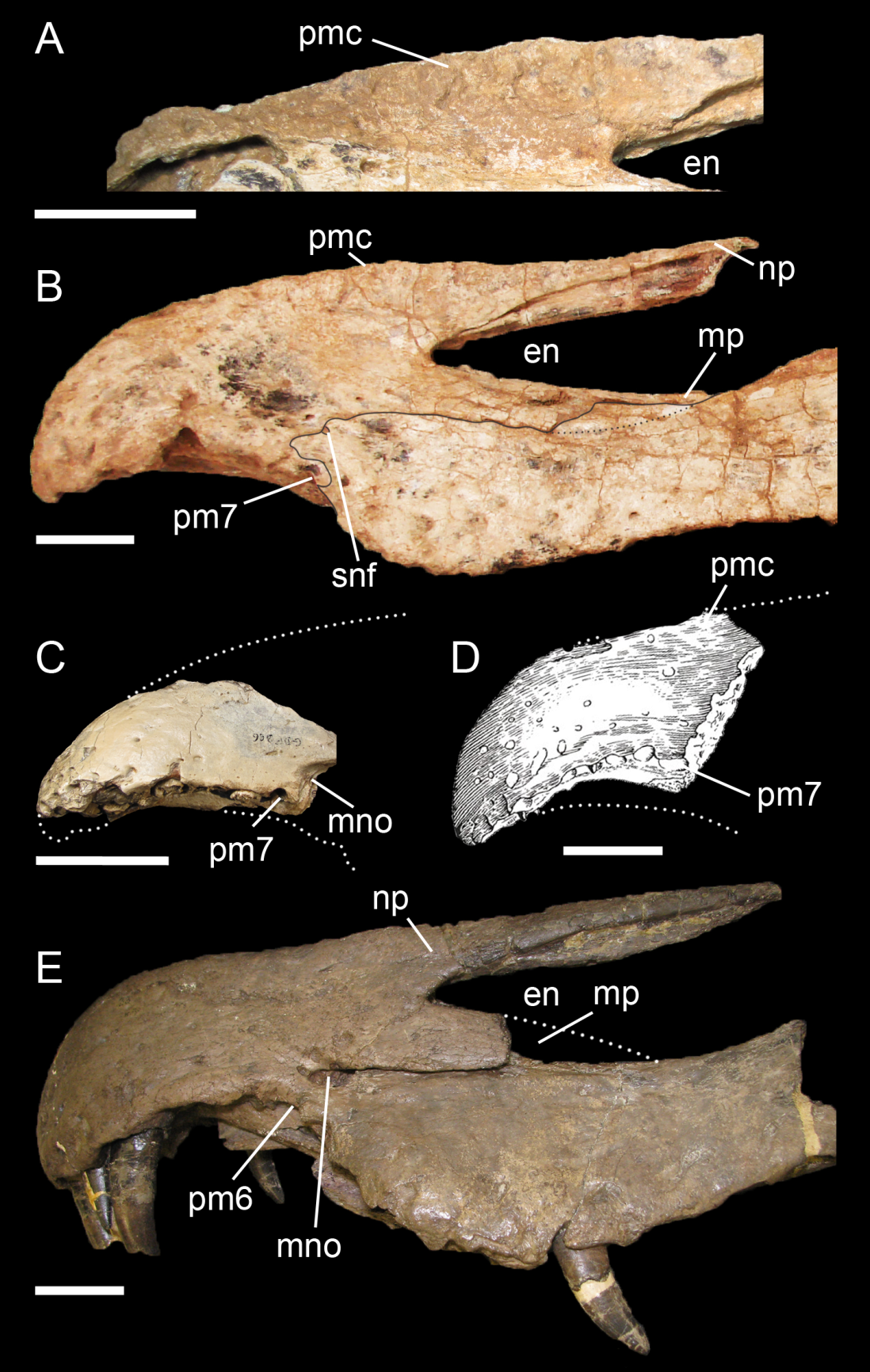 Figure B. Baryonychine rostrum in lateral view. A‒B, Suchomimus tenerensis (MNN GAD501); A, close up on the premaxillary crest (left side); and B, snout (right reversed, photo courtesy shared by Juan Canale); C‒D, Cristatusaurus lapparenti (C, MNHN GDF566; D, MNHN GDF565, modified from Taquet [14]); E, Baryonyx walkeri (NHM R.9951). Abbreviations: en, external naris; mno, maxillary notch of the premaxilla; mp, maxillary process of the premaxilla; nfo, neurovascular foramina; np, nasal process of the premaxilla; pm1, first premaxillary alveolus; pm6, sixth premaxillary alveolus; pm7, seventh premaxillary alveolus; pmc, premaxillary crest; snf, subnarial foramen. Scale bar = 5 cm.